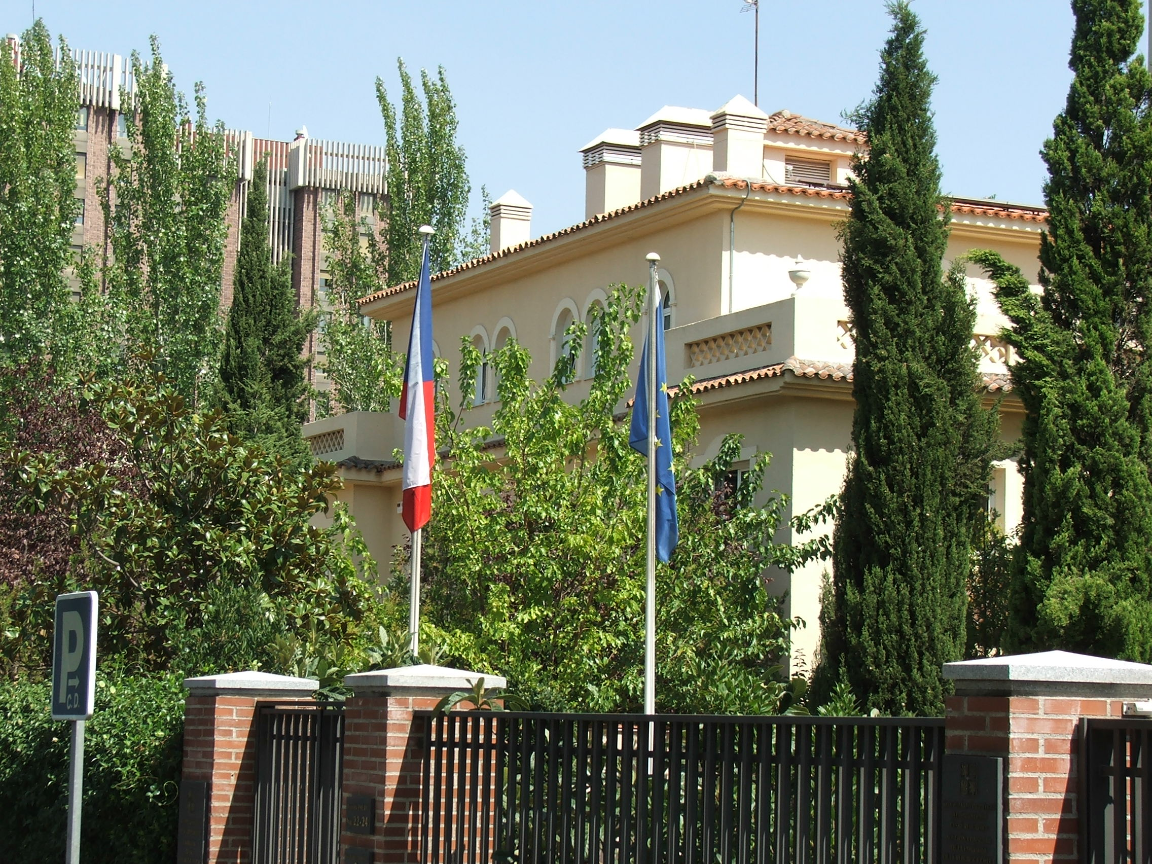 Embassy of Czechia in Madrid - Spain. Avenida Pio XII.